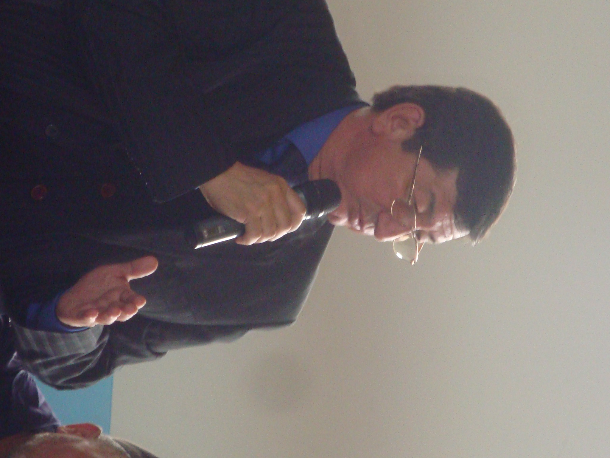 Qodirjon Botirov Oʻzbekcha/ўзбекча: Qodirjon Botirov